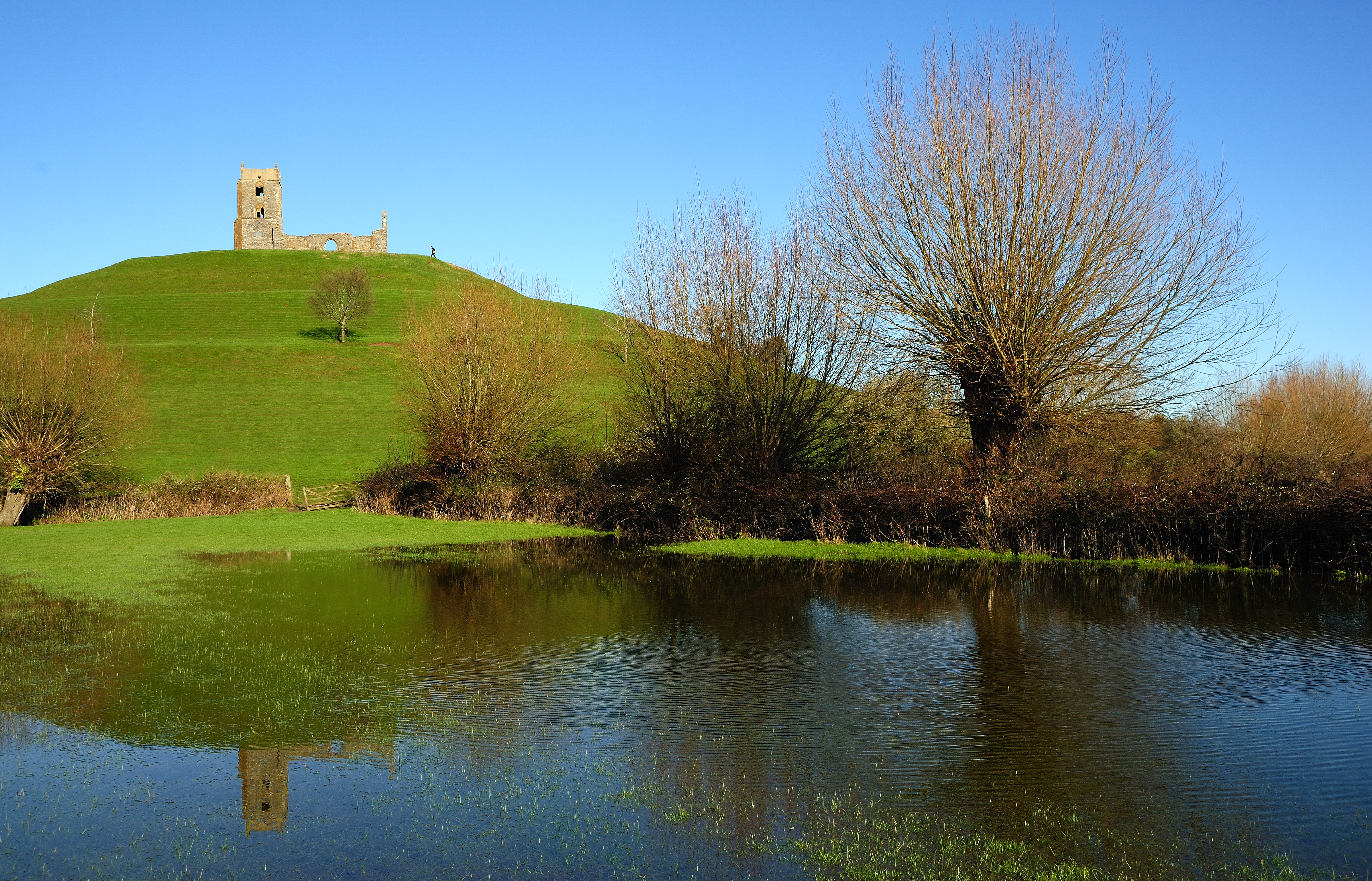 The ruins of St Michael's church on the top of Burrow Mump in Somerset, England.